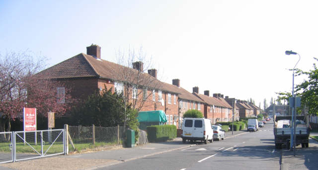 Castillon Road, Catford Typical housing on the Downham Estate between Catford and Bromley, which when the London County Council built it in the 1920's was said to be one of the largest housing estates in Europe.